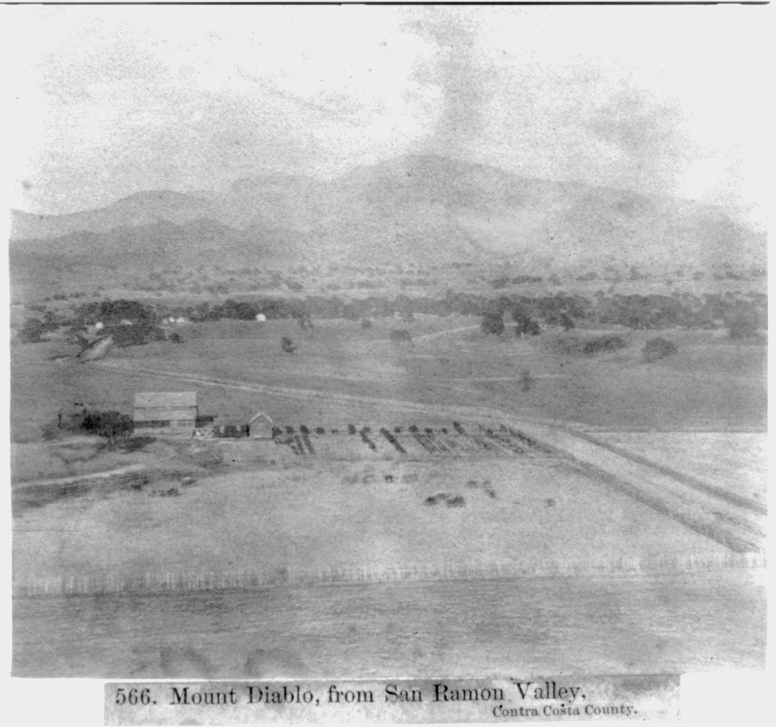 Mount Diablo, from San Ramon Valley - Contra Costa County, in 1866